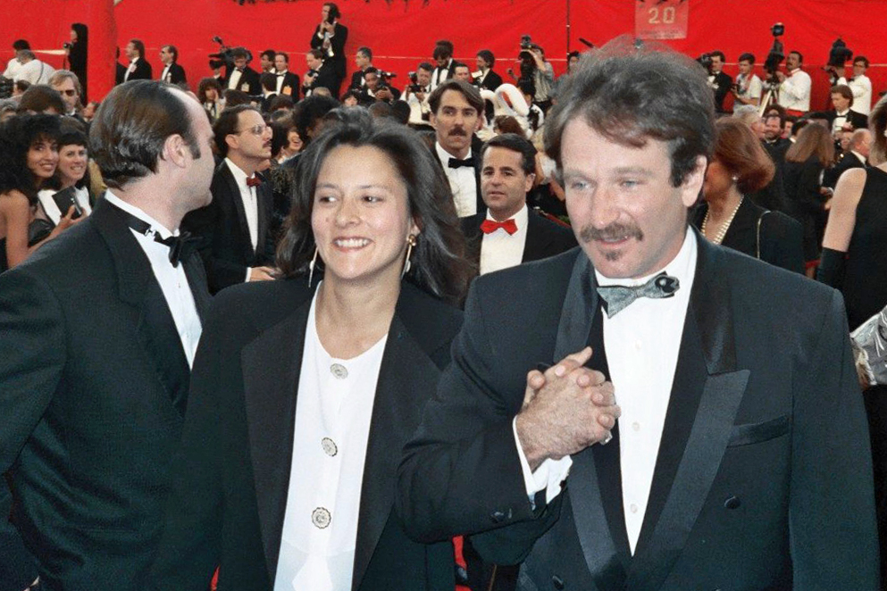 Robin Williams and wife Marsha on the red carpet at the at the 61st Annual Academy Awards, 1989. NOTE: Permission granted to copy, publish, broadcast or post any of my photos, but please credit "photo by Alan Light" if you can. Thanks. Scanned from the original 35MM film negative.